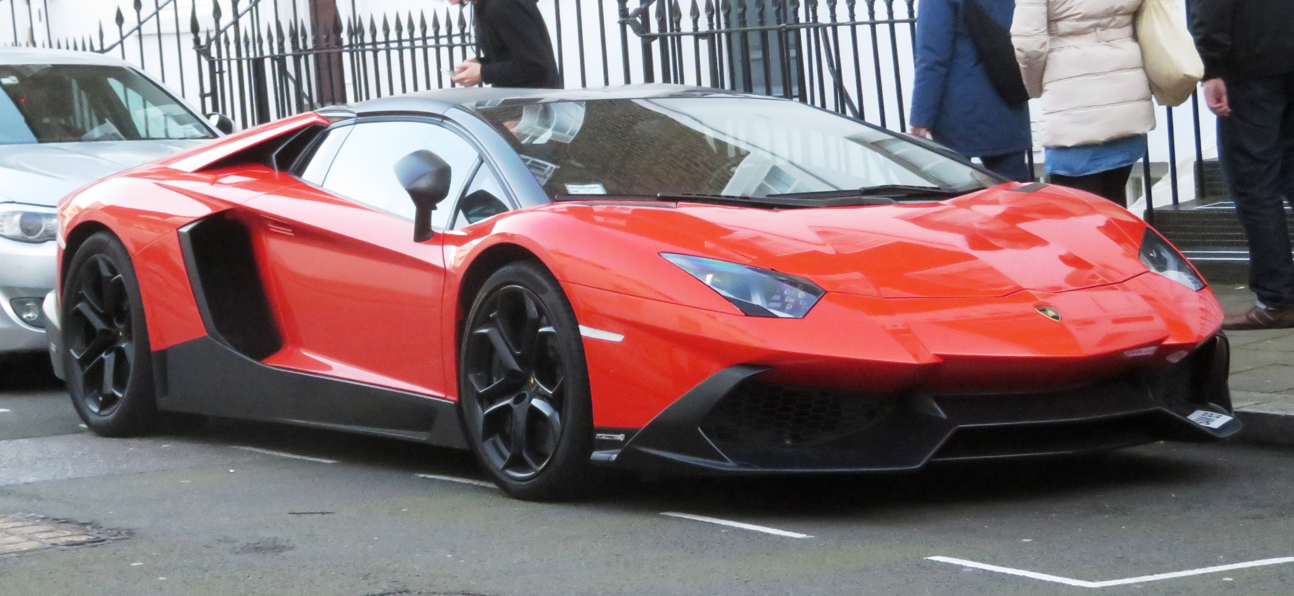 Lamborghini Aventador (2015) in 2018